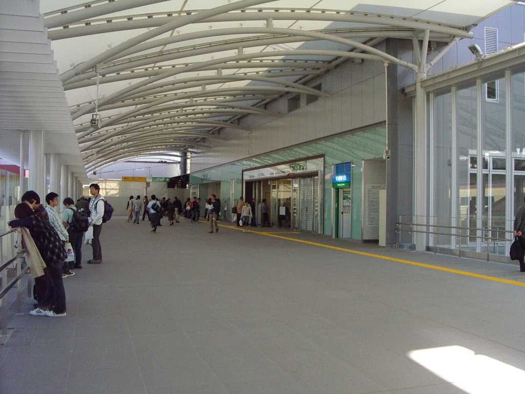 JR Iwaki station on JR Joban line and Banetu-tou Line. This station is located at Iwaki, Fukushima.